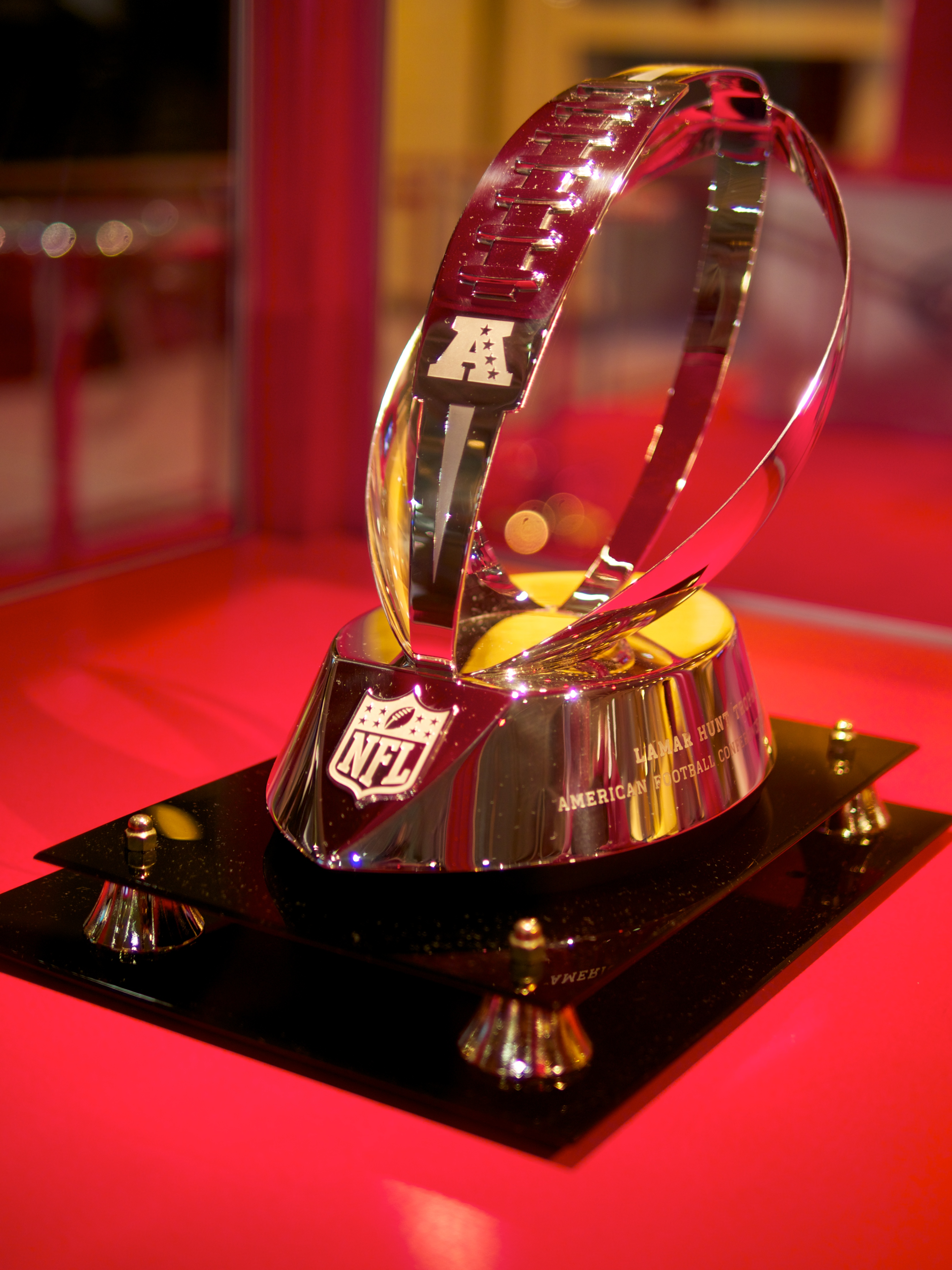 The Lamar Hunt Trophy for the AFC Champion, taken at the NFL Experience during Super Bowl XLVII.